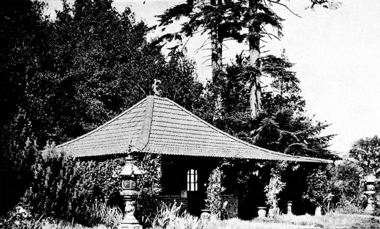 Japanese Rest House in Batsford Arboretum in 1917